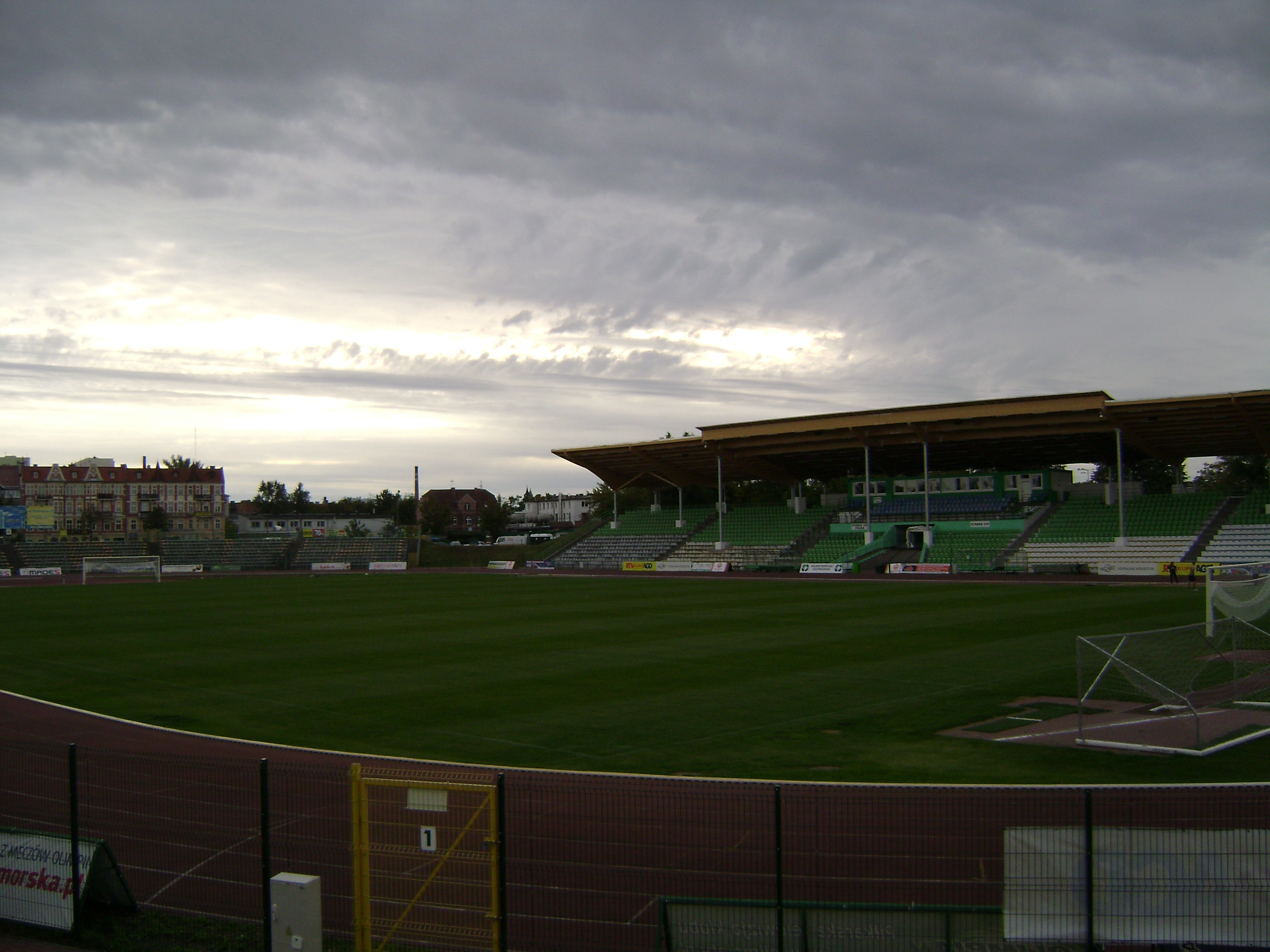 GKS 'Olimpia' Grudziądz Stadium, Poland